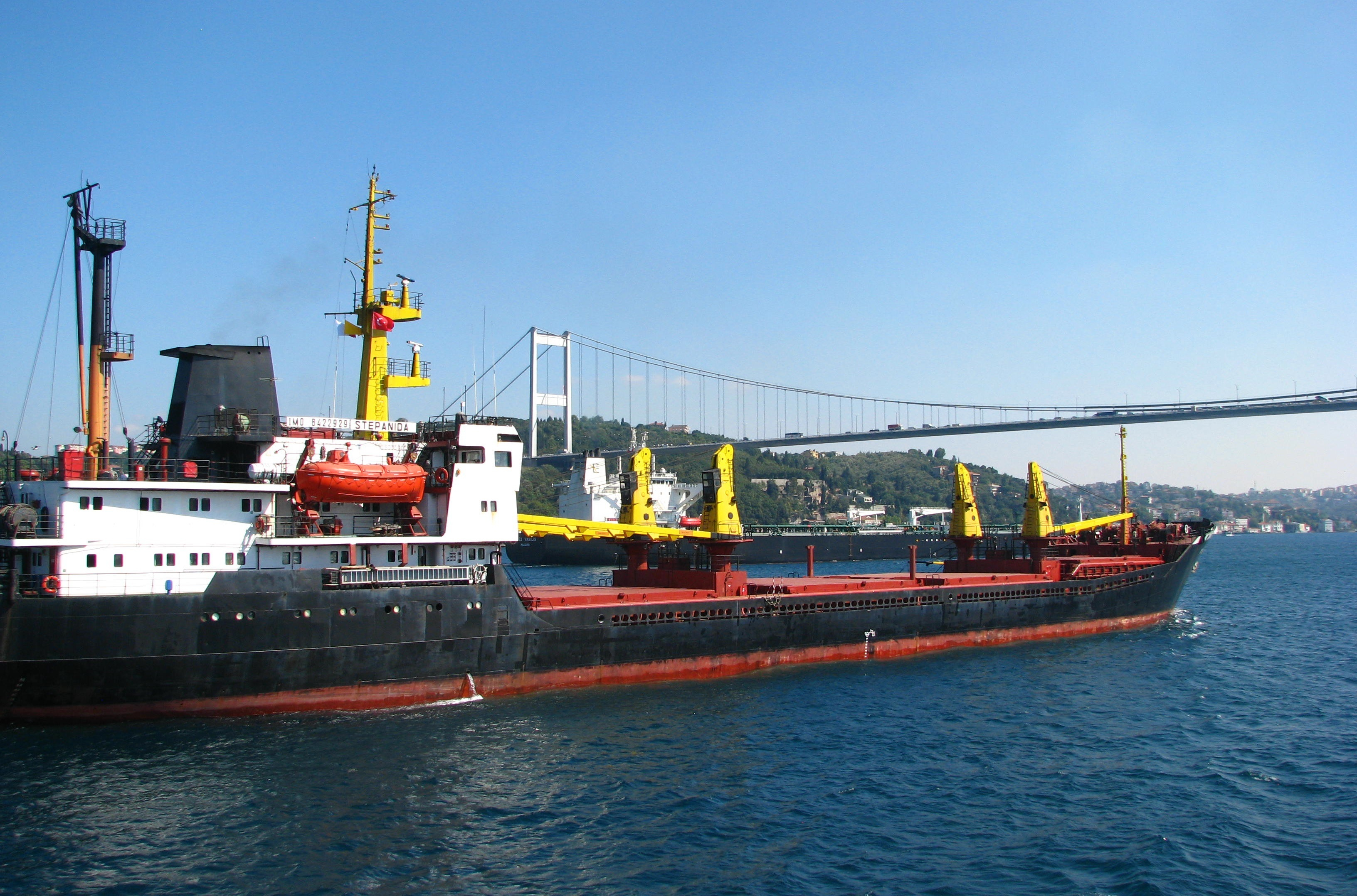 Two ships passing under the Second Bosphorus Bridge in Istanbul, September 2011